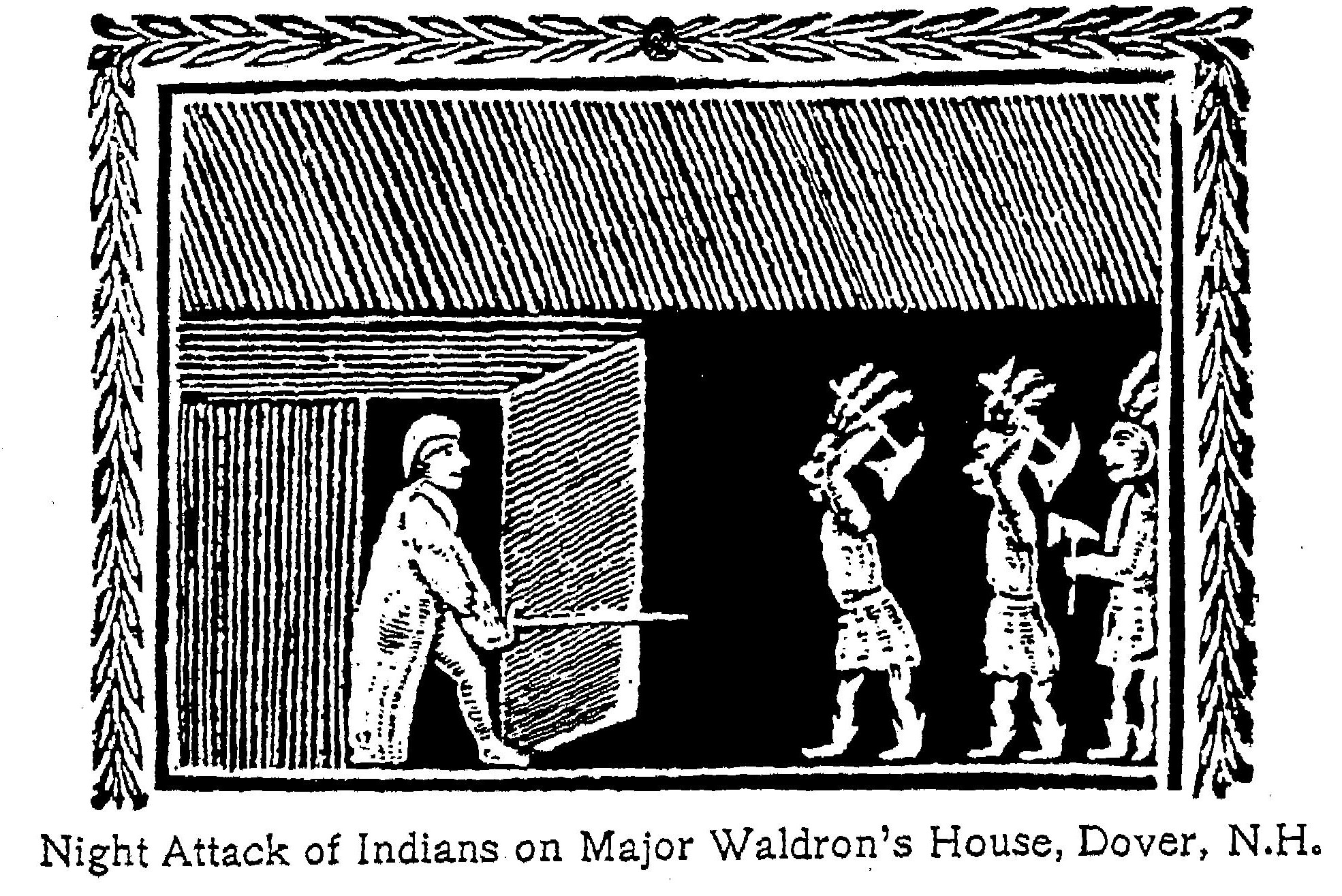 Night Attack of Indians on Major Waldron's House, Dover, N. H. This depicts an event in the Cochecho Massacre, the attack of June 28, 1689 on Dover, New Hampshire. Major Richard Waldron (1615-1689) was slain with his own sword.